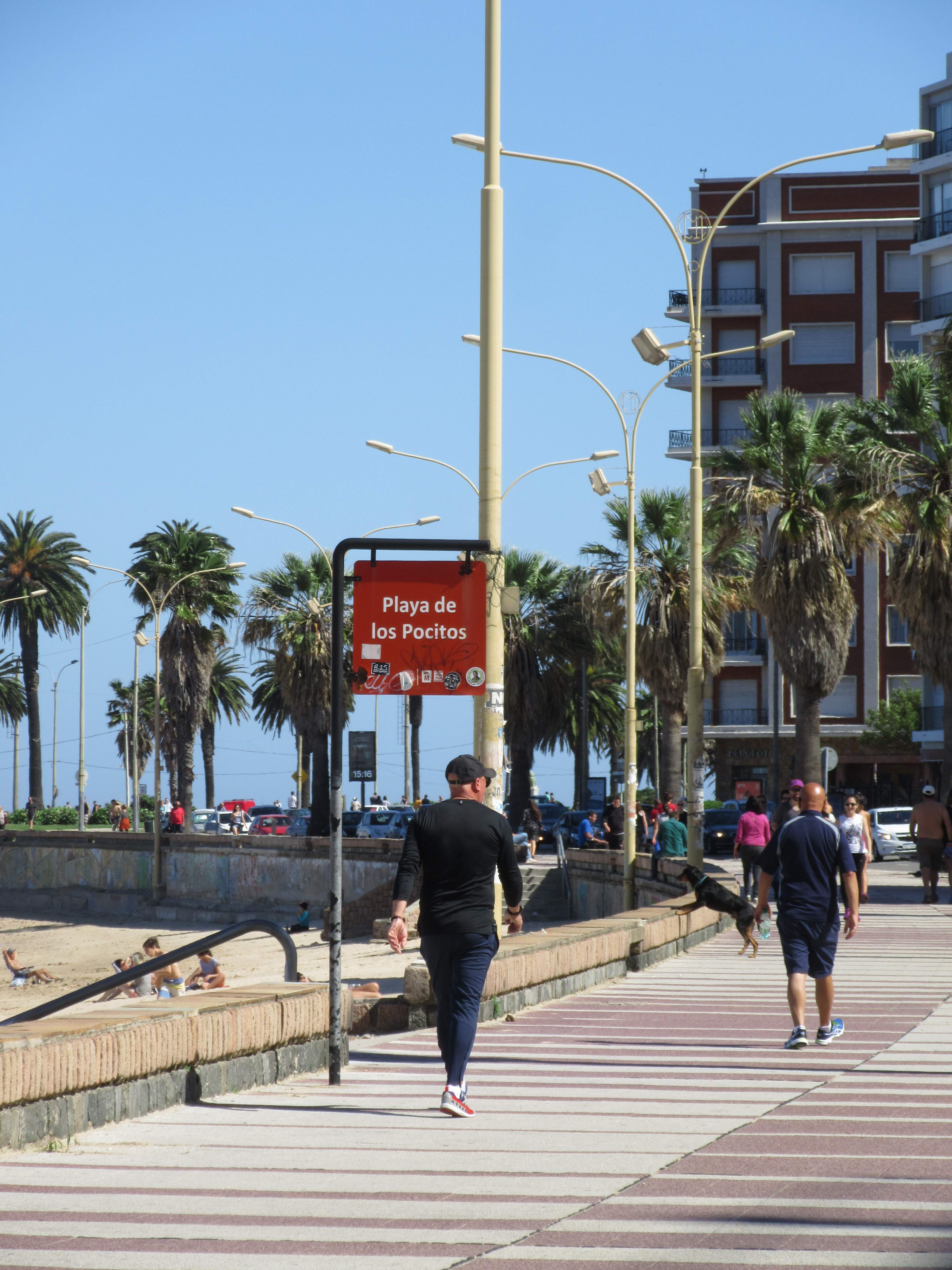 Montevideo